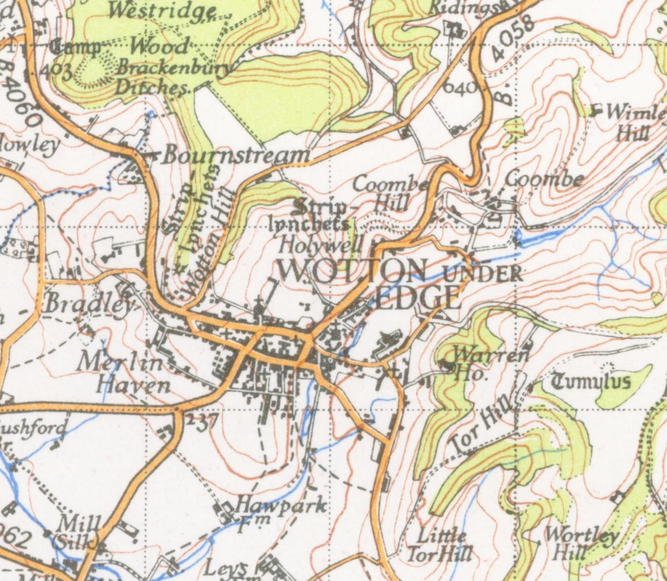 Map of Wotton-under-Edge from 1946. Scale 1 inch to the mile 600DPI Sheet 156